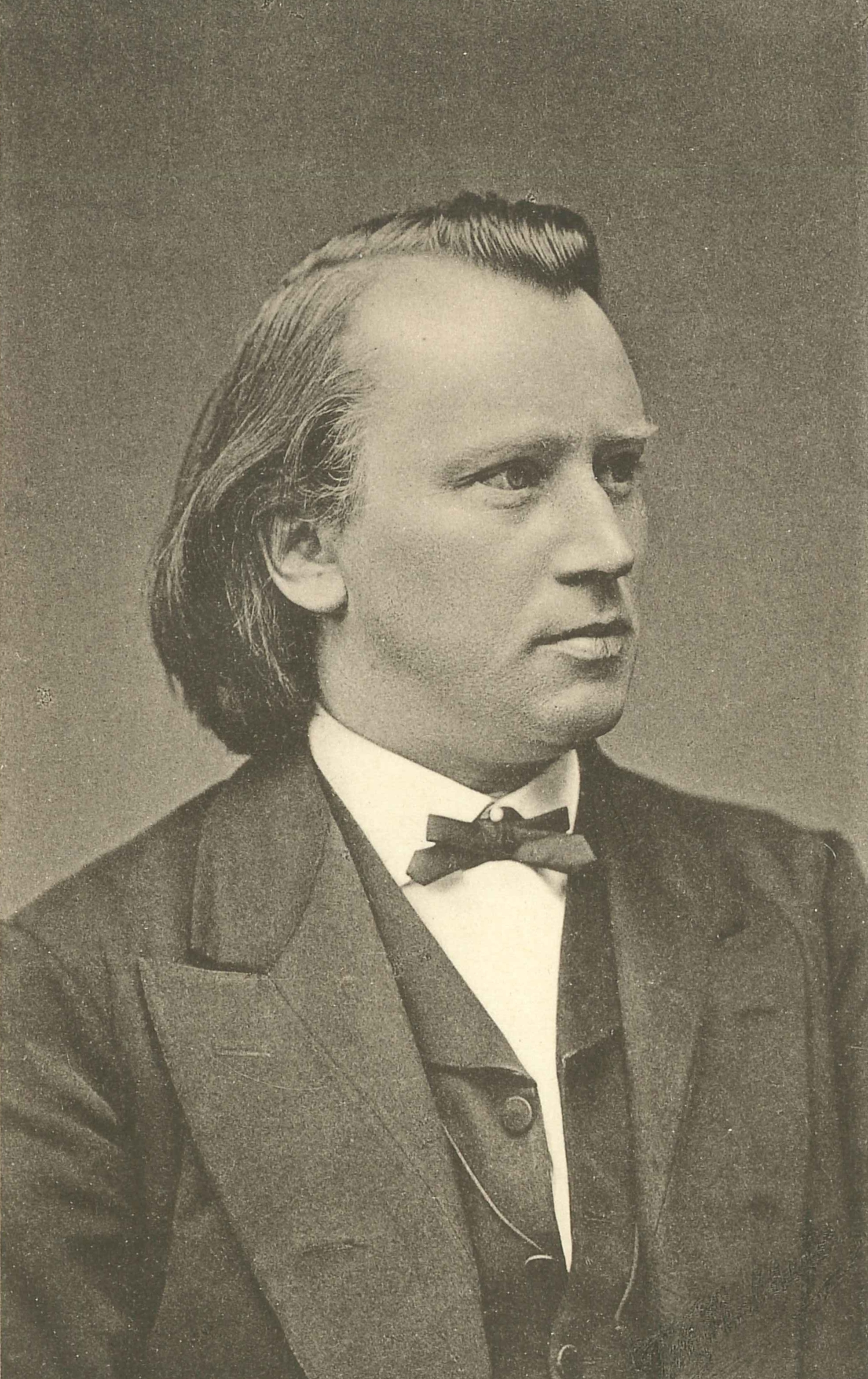 Johannes Brahms